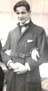 Enrique Parigi-actor